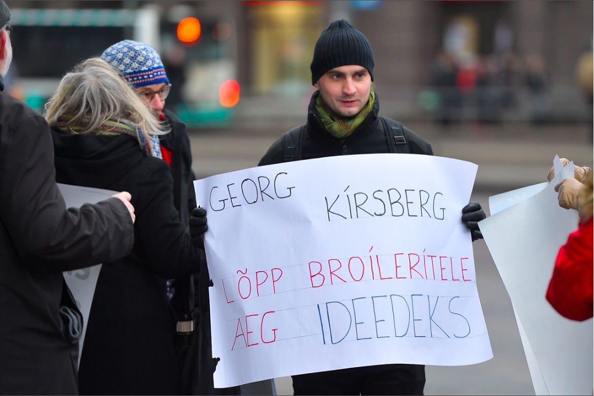 Georg Kirsberg 17.01.2015. Tallinna kesklinnas kampaanial.